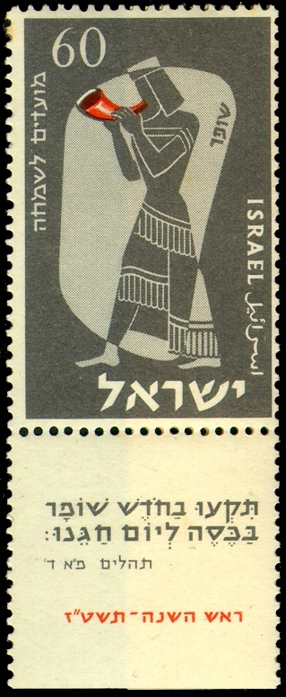 Joyous Festivals 5716 stamp - 60 mil - Ram's horn. Inscription on tab: "Blow the trumpet in the new moon, in the time appointed, on our solemn feast day" Psalms LXXXI, 4.